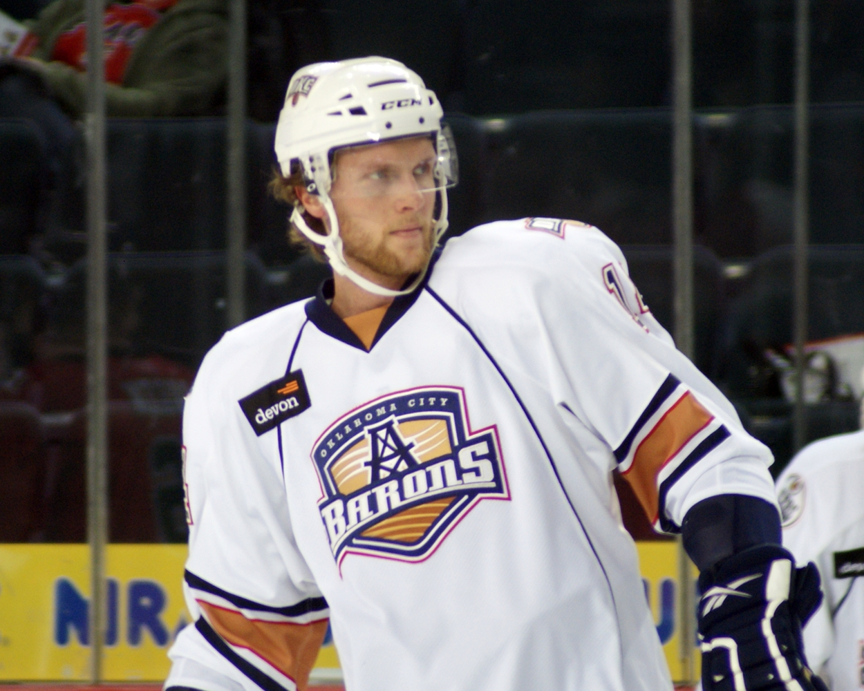 Jake Taylor, born August 1, 1983 in Rochester, Minnesota, is an American professional ice hockey defenceman who currently plays for the Oklahoma City Barons of the American Hockey League (AHL). He was selected by the New York Rangers in the 6th round of the 2002 NHL Entry Draft, 177th overall. Photo was taken on February 18, 2011 during an American Hockey League (AHL) regular season game.